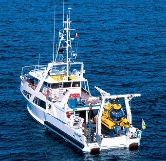 COMEX R/V Minibex with submersible REMORA 2000